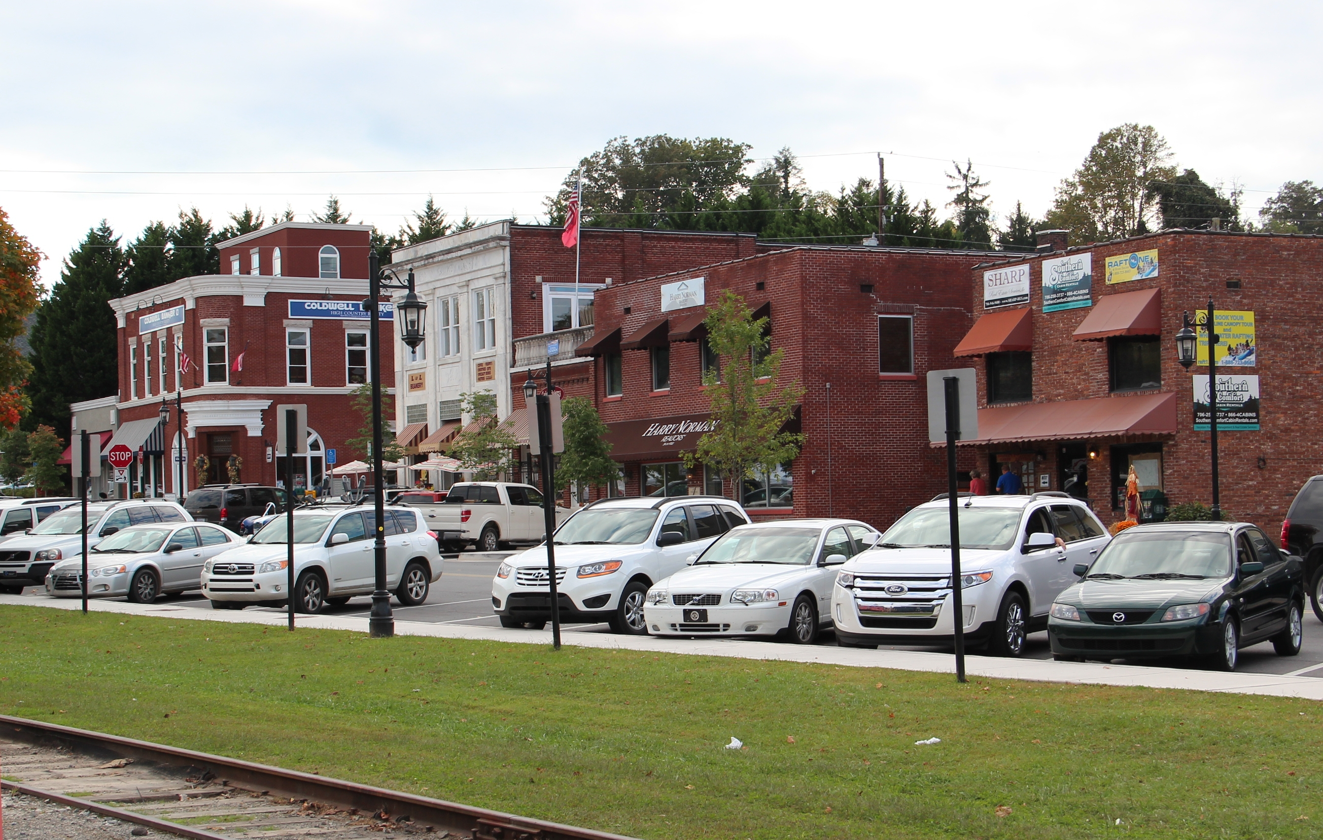 Blue Ridge Georgia, 2013